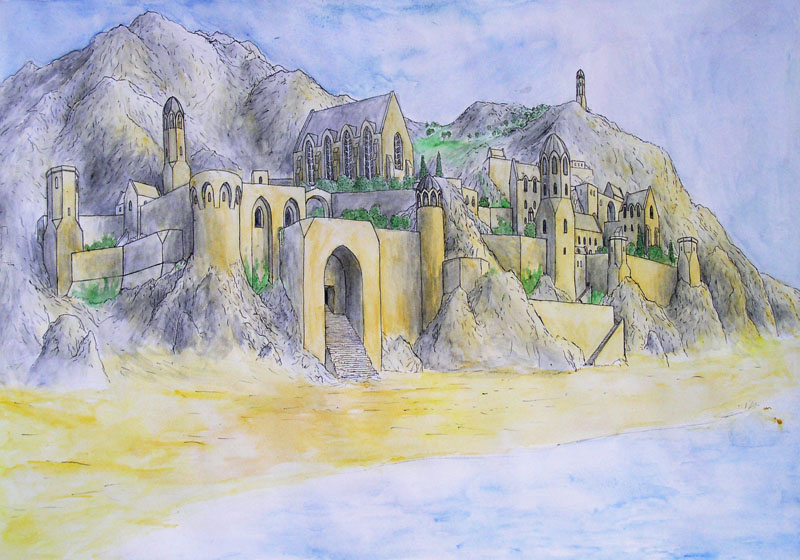 Vinyamar, ancient city of elven king Turgon in the First Age of Middle-earth